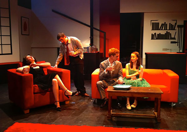 SCTG Production WAOVW 2011